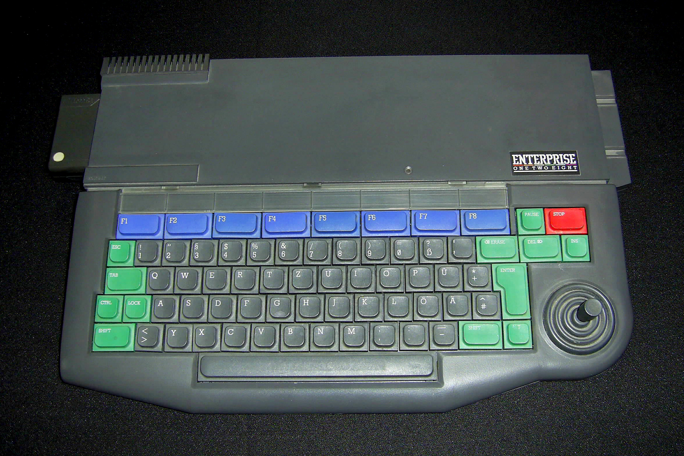 Enterprise 128 top view